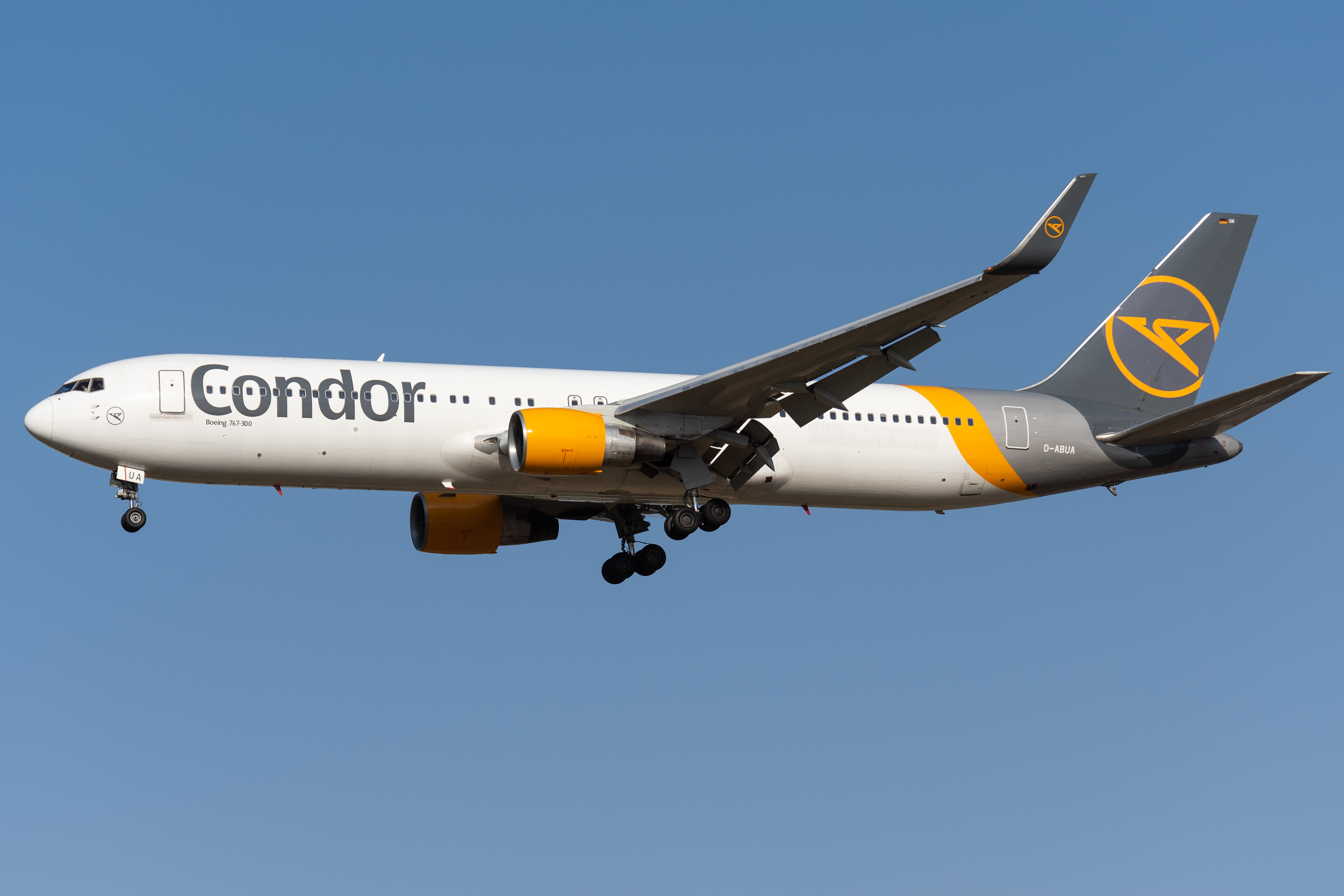 Condor 920 from Hannover and Almaty. First B767 for Condor, aren't you?